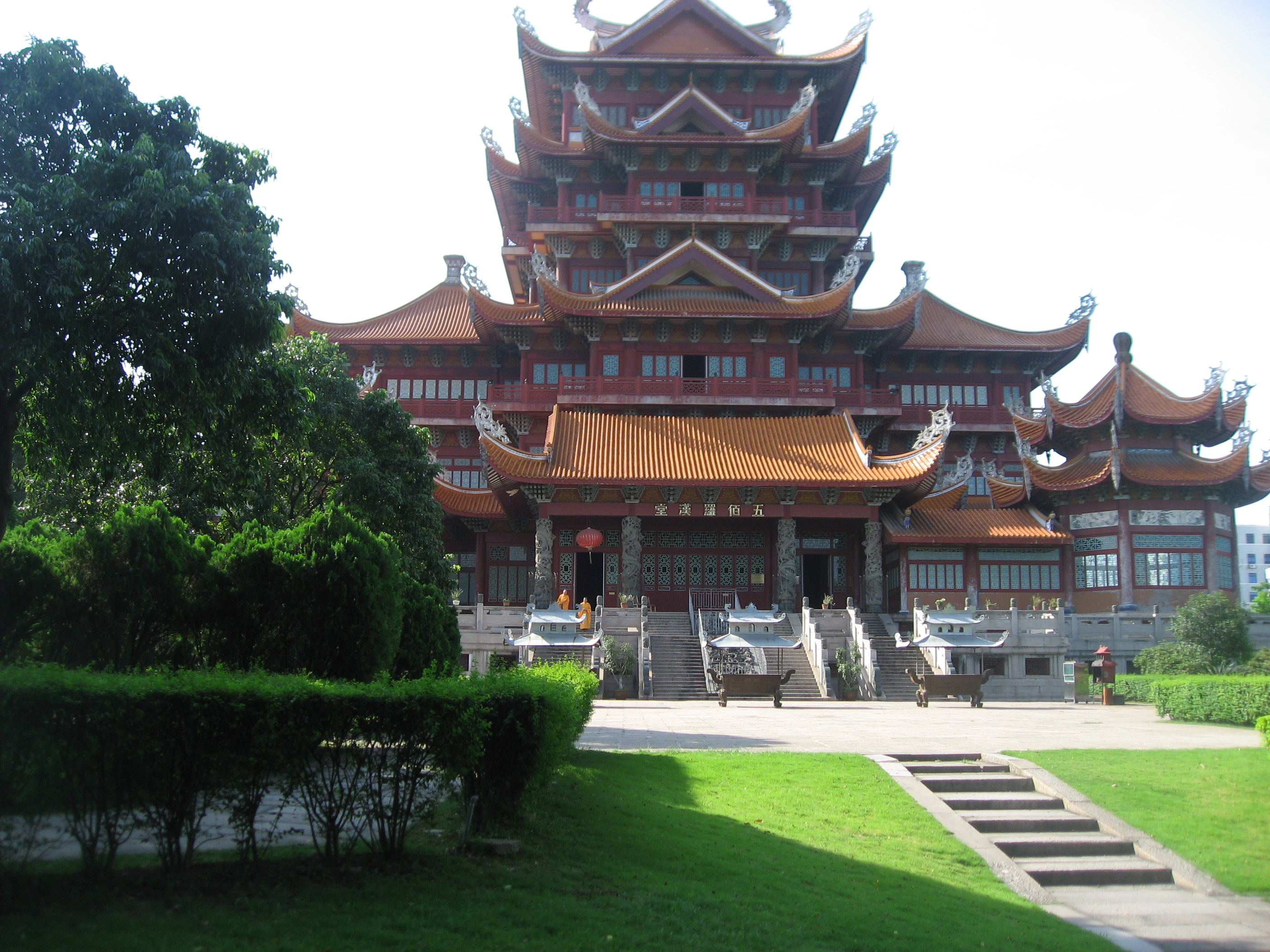 Xichansi (Să̤-sièng-sê/西禪寺) Temple in Fuzhou, China。 On the front there is wrote: 《五佰羅漢堂》, meaning, Palace of 500 Arhats